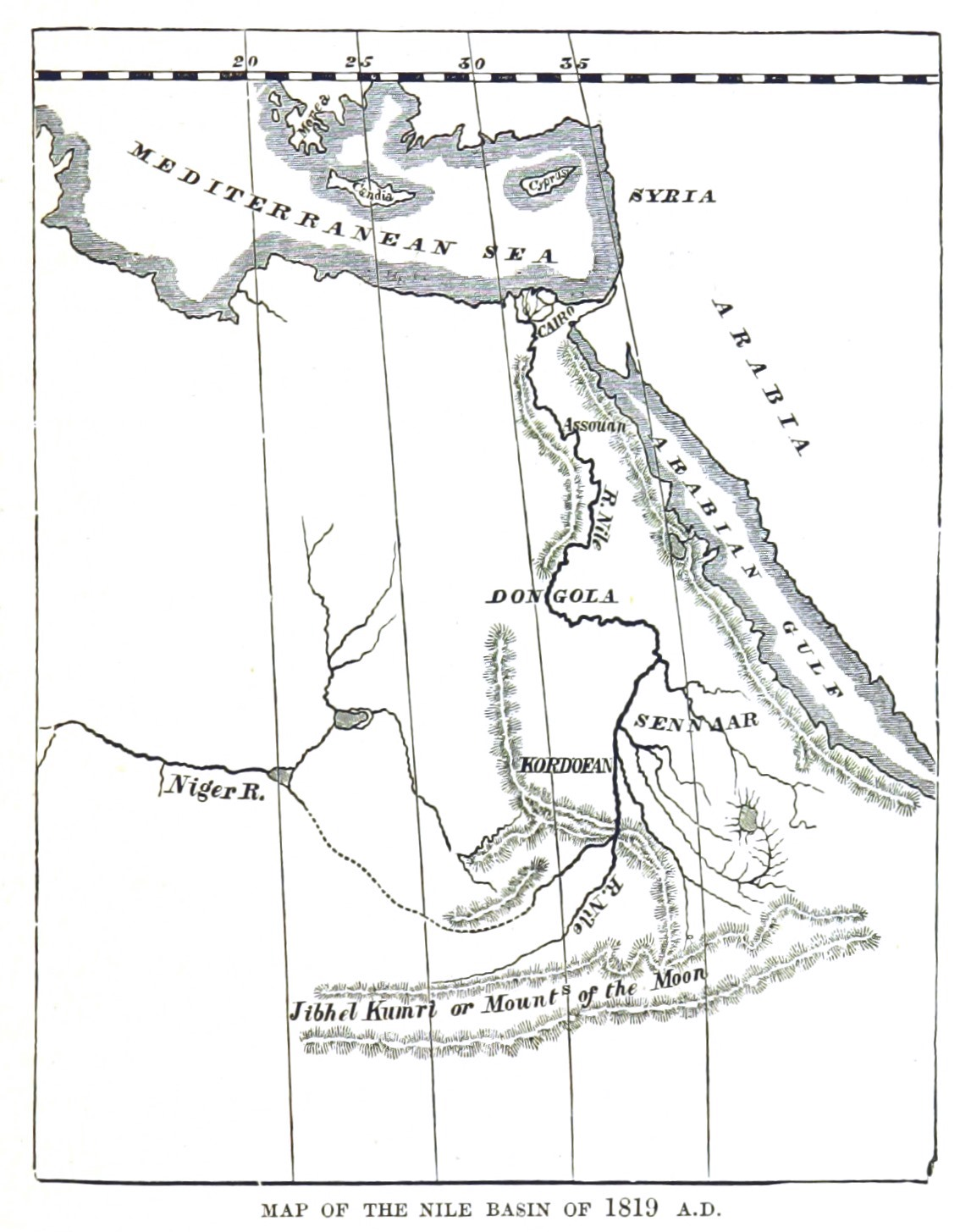 View this map on the BL Georeferencer service. Image taken from: Title: "Great Explorers of Africa. With illustrations and map" Shelfmark: "British Library HMNTS 010096.m.27." Volume: 01 Page: 113 Place of Publishing: London Date of Publishing: 1894 Publisher: Sampson Low & Co. Issuance: monographic Identifier: 000024897 Explore: Find this item in the British Library catalogue, 'Explore'. Open the page in the British Library's itemViewer (page image 113) Download the PDF for this book Image found on book scan 113 (NB not a pagenumber)Download the OCR-derived text for this volume: (plain text) or (json) Click here to see all the illustrations in this book and click here to browse other illustrations published in books in the same year. Order a higher quality version from here. This file is from the Mechanical Curator collection, a set of over 1 million images scanned from out-of-copyright books and released to Flickr Commons by the British Library. Please add the Flickr page URL for the image Please add the British Library system number for the book This tag does not indicate the copyright status of the attached work. A normal copyright tag is still required. See Commons:Licensing.